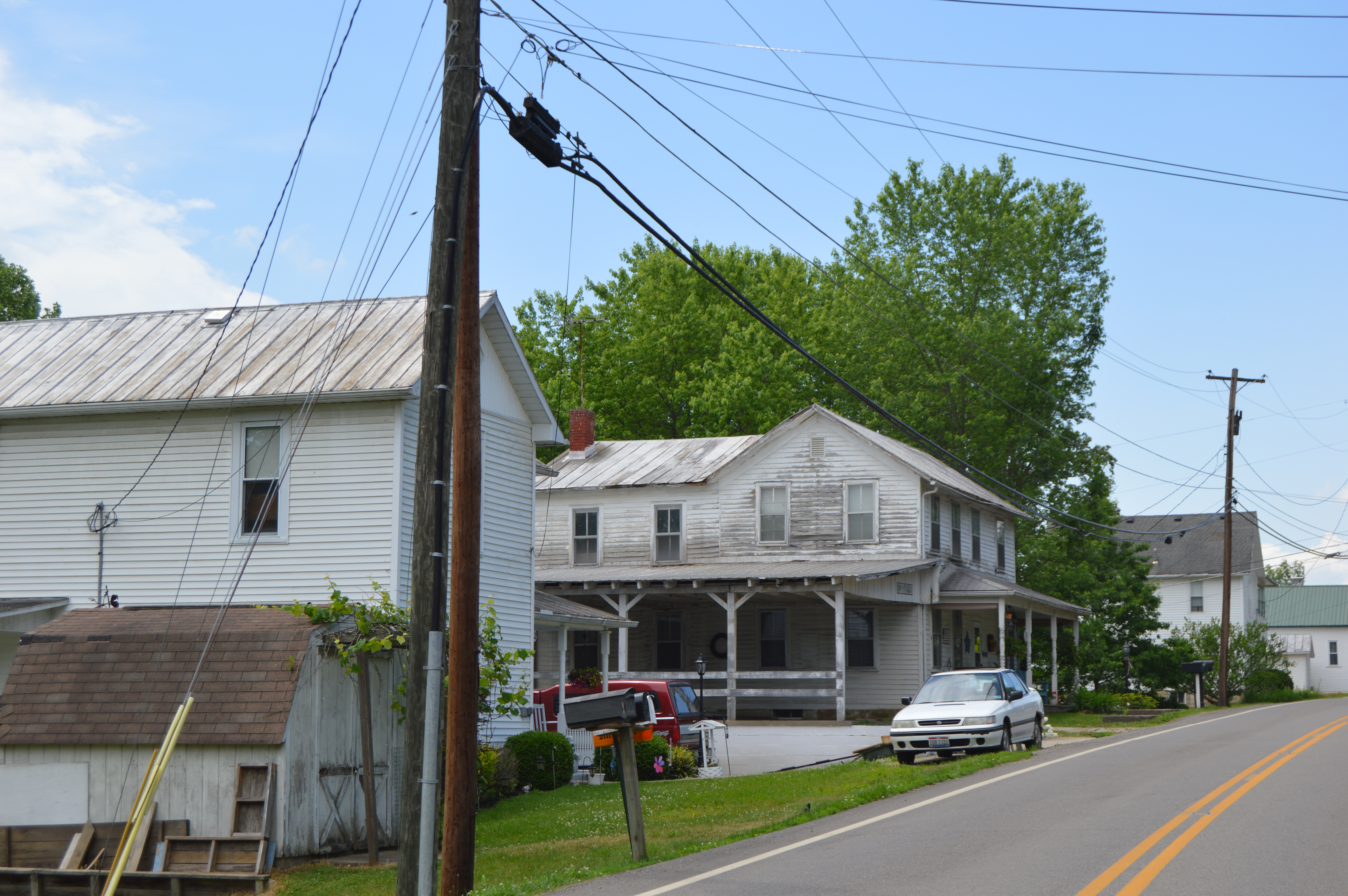 Houses on the southern side of State Route 329 east of the Union Street intersection in Guysville, Ohio, United States.